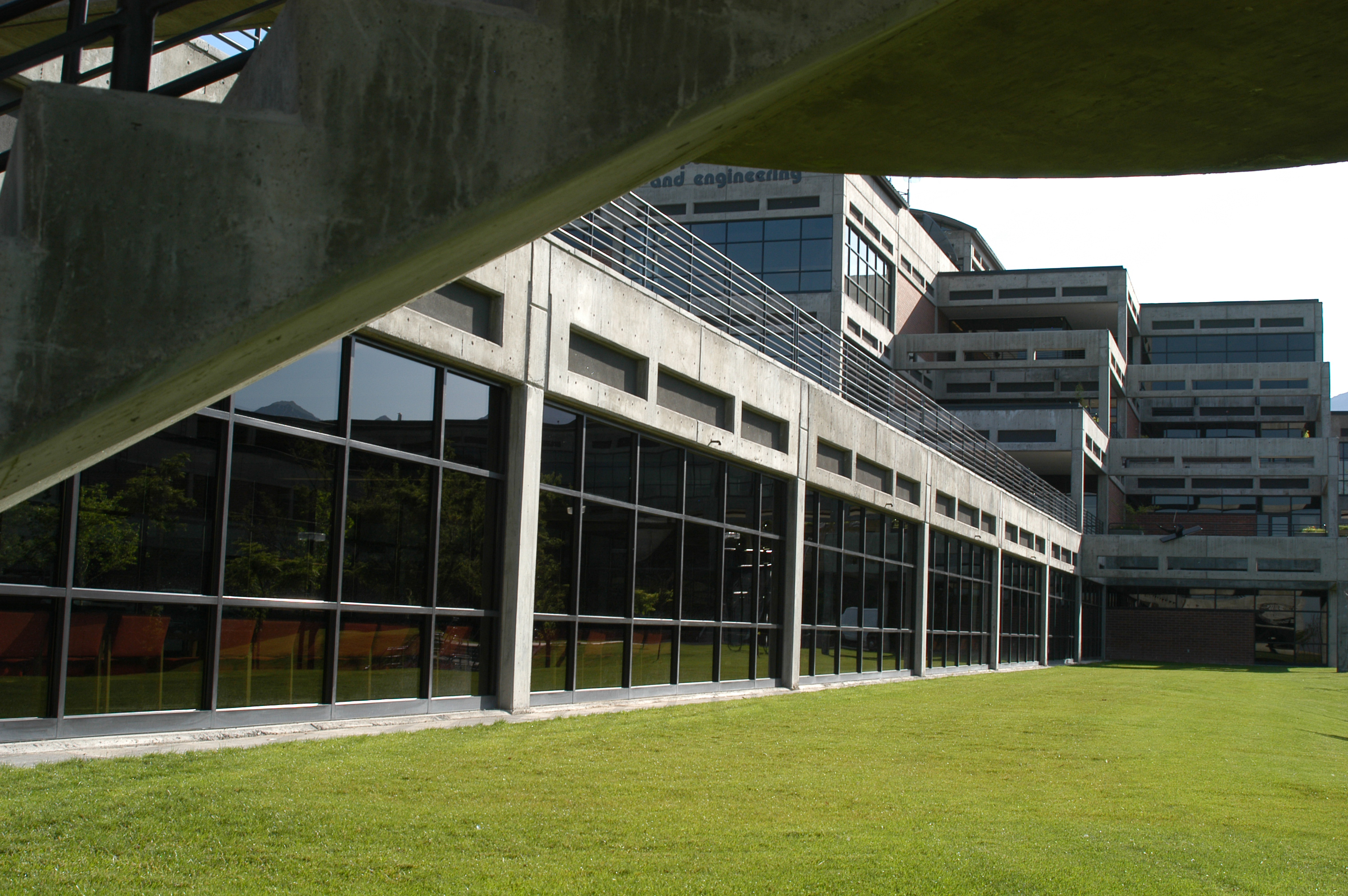 Orem Campus Shots